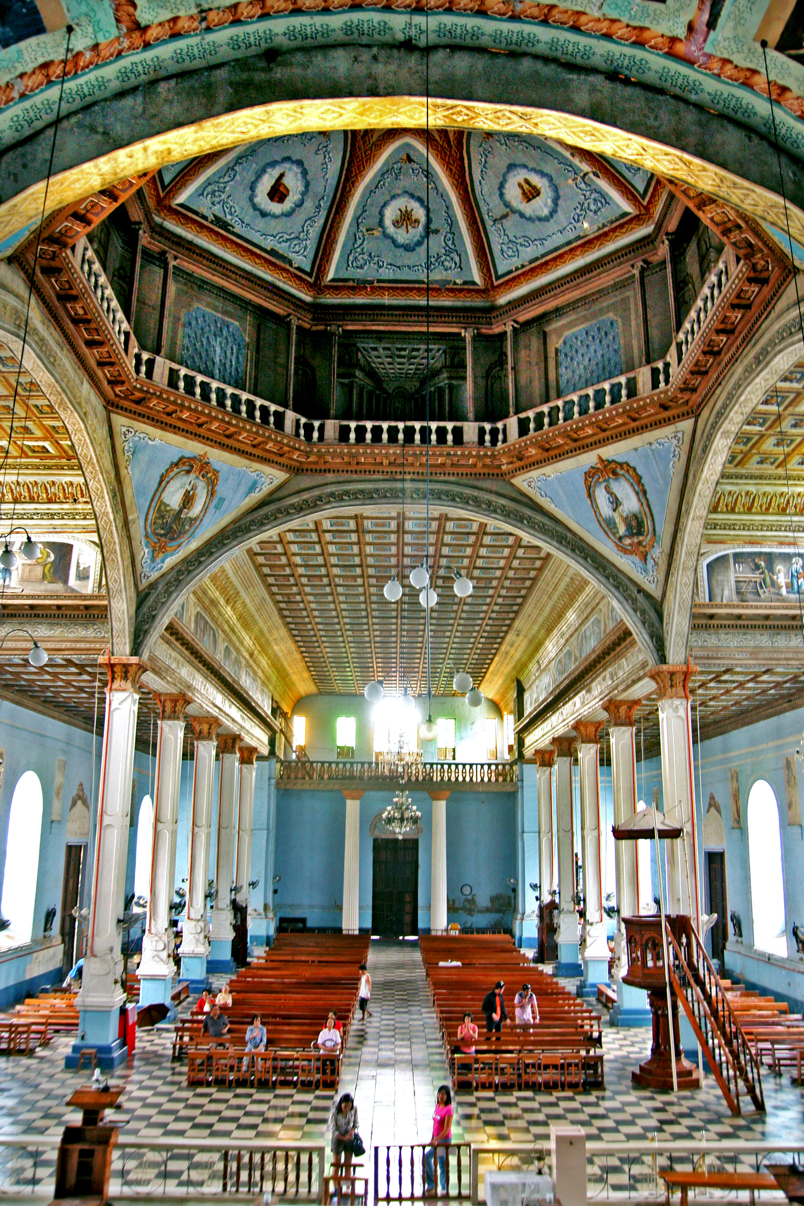 Another beautiful church in Bohol is the Church of Our Lady of the Assumption in Dauis, Bohol, on the Island of Panglao. In the interior of the church, on the ceiling, are some impressive frescoes painted Ray Francia in 1916.